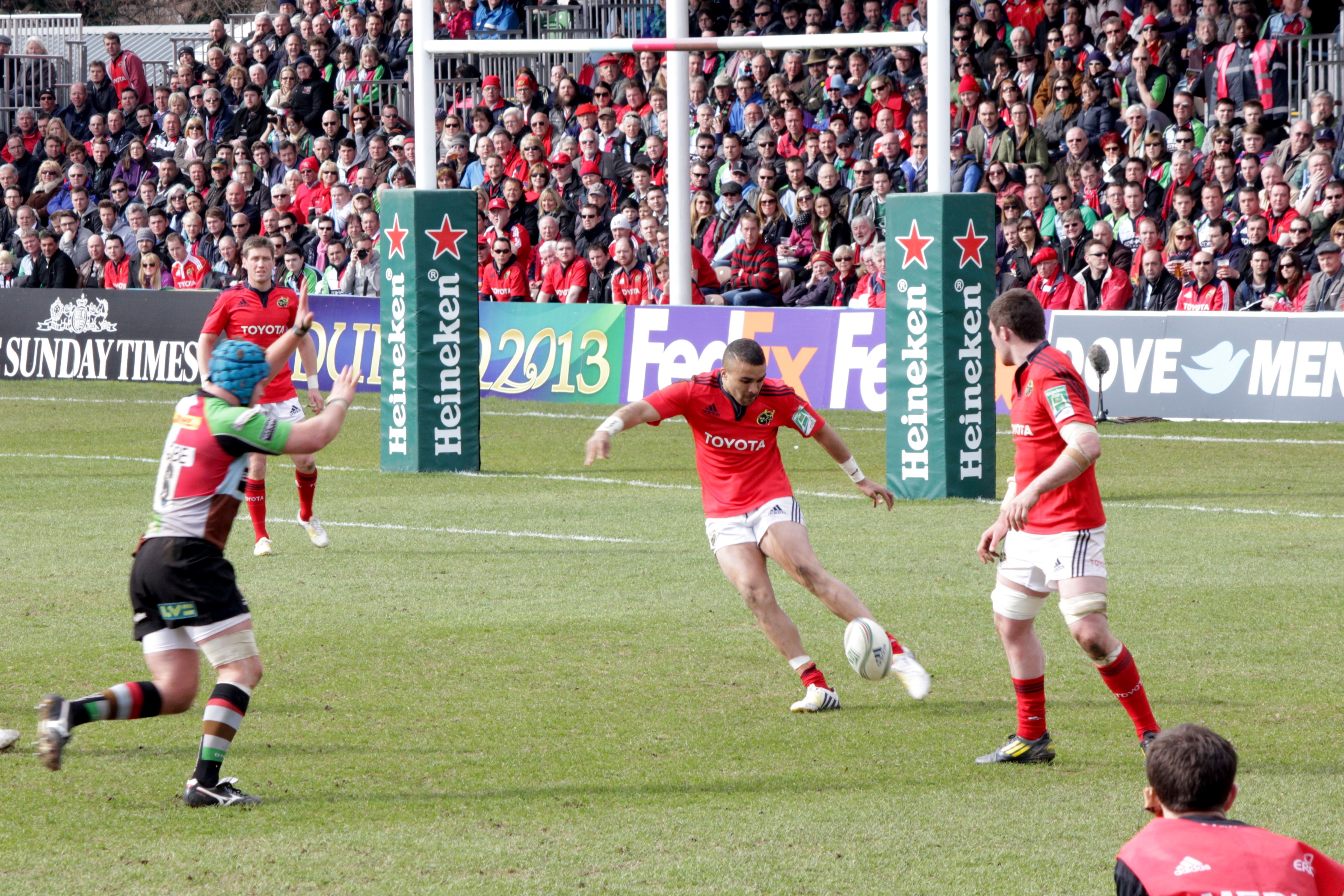 Munster's Simon Zebo playing against Harlequins in the Heineken Cup.